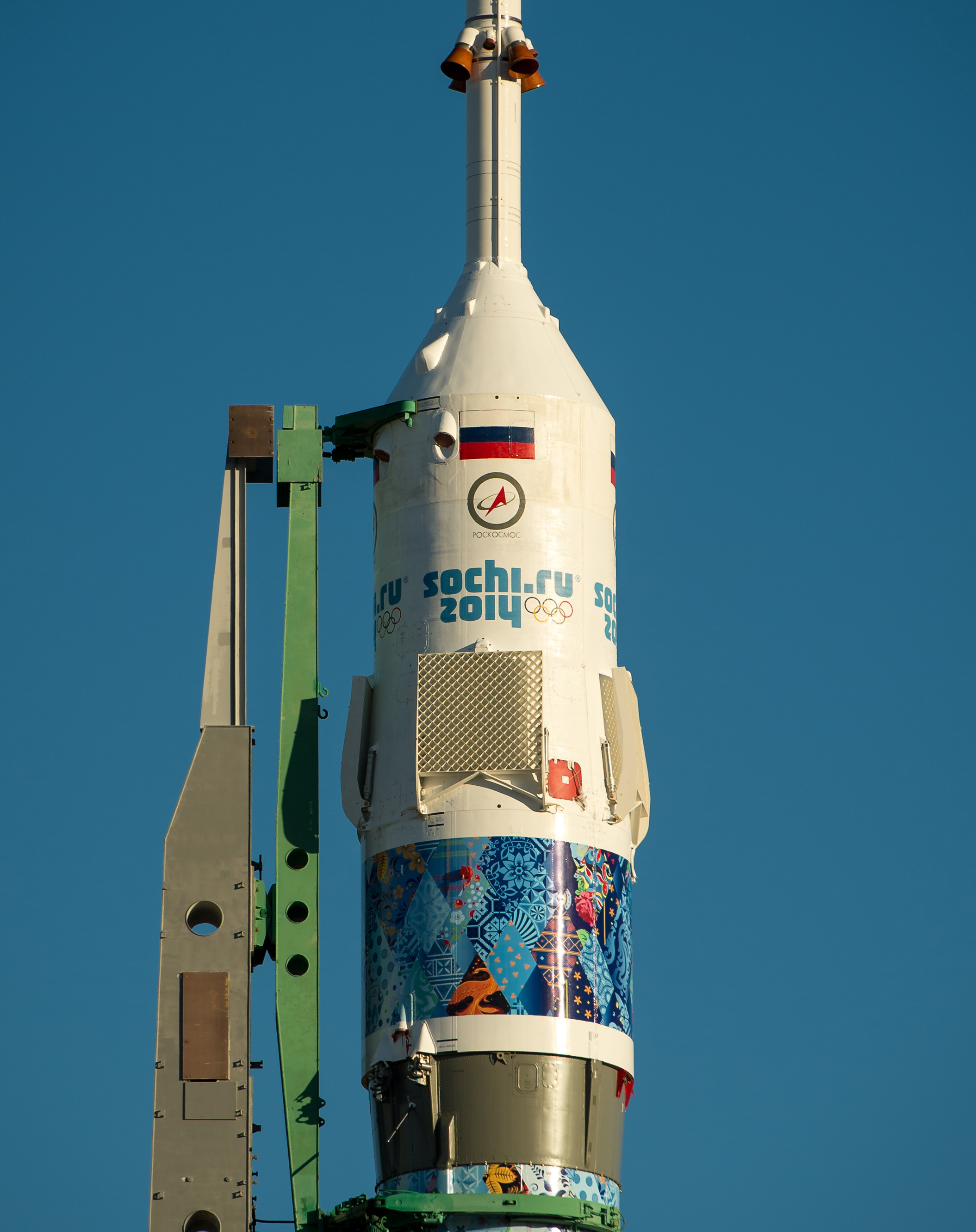 The Soyuz TMA-11M rocket, adorned with the logo of the Sochi Olympic Organizing Committee and other related artwork, is seen after being erected into position at the launch pad on Tuesday, Nov. 5, 2013, at the Baikonur Cosmodrome in Kazakhstan. Launch of the Soyuz rocket is scheduled for November 7 and will send Expedition 38 Soyuz Commander Mikhail Tyurin of Roscosmos, Flight Engineer Rick Mastracchio of NASA and Flight Engineer Koichi Wakata of the Japan Aerospace Exploration Agency on a six-month mission aboard the International Space Station.